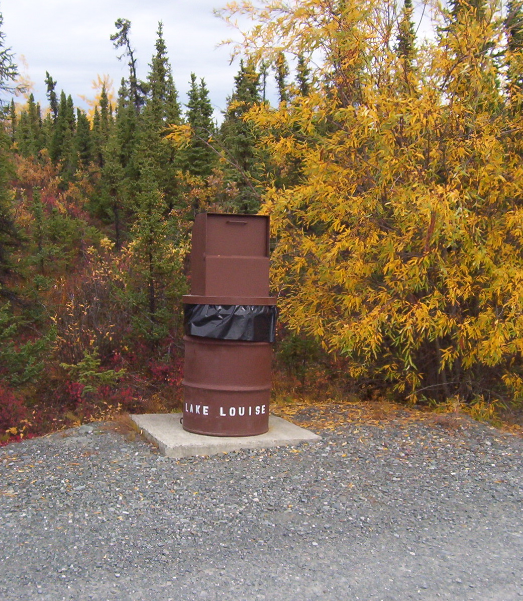 The older "postal box" style of bear-resistant garbage can used in many parks and campgrounds. Although not visible in this image, the entire apparatus is locked to a metal post that is anchored in the concrete pad beneath the barrel, ensuring that a bear cannot remove the top or tip the container. Lake Louise State Park, Alaska.